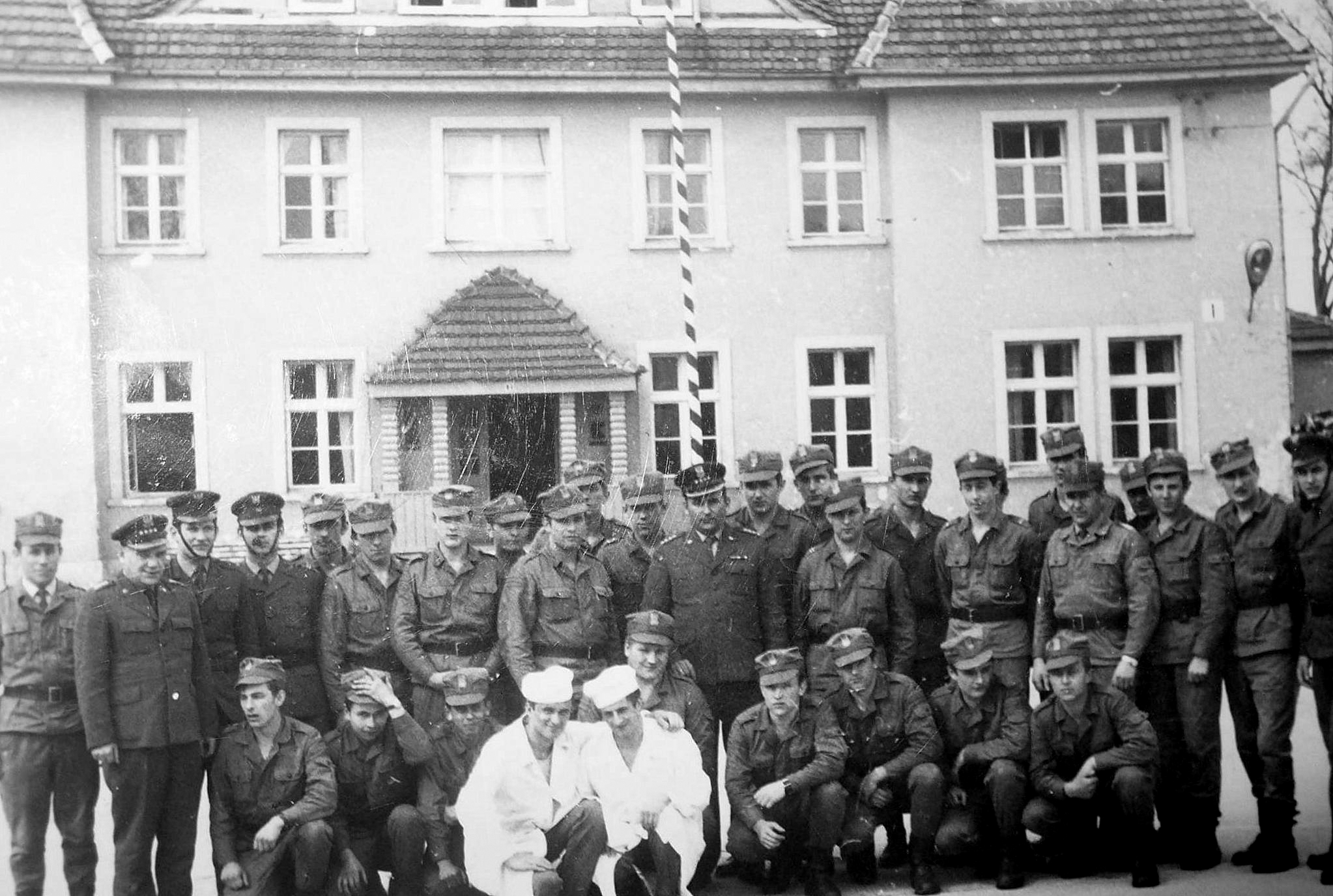 Border Protection Forces in Ustronie Morskie